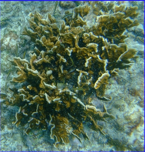 Lettuce Leaf Coral flourishes extensively in the turbulent, sand-filled waters inside the Inner Reef